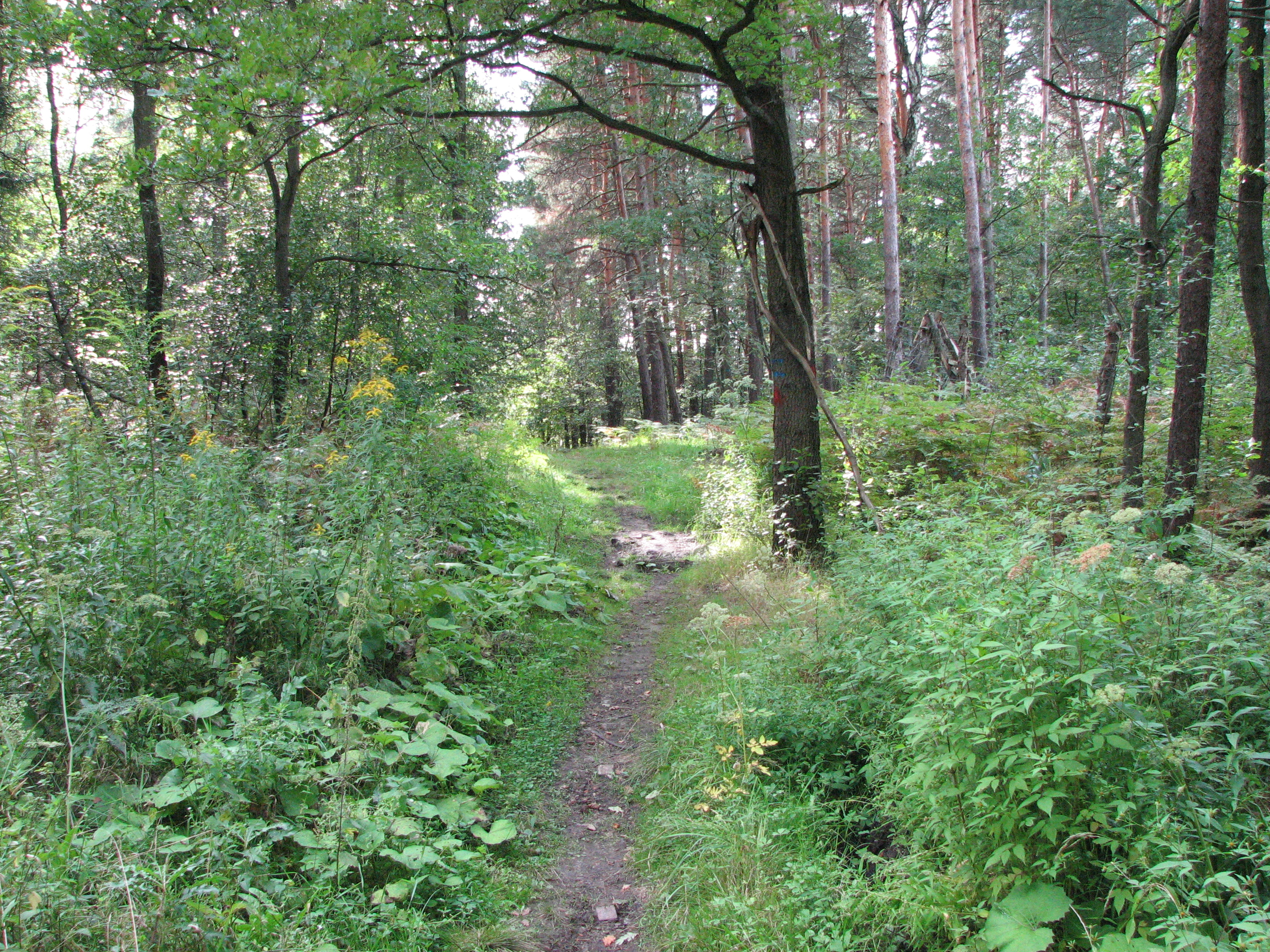 Panewniki's Forests in Katowice, Poland